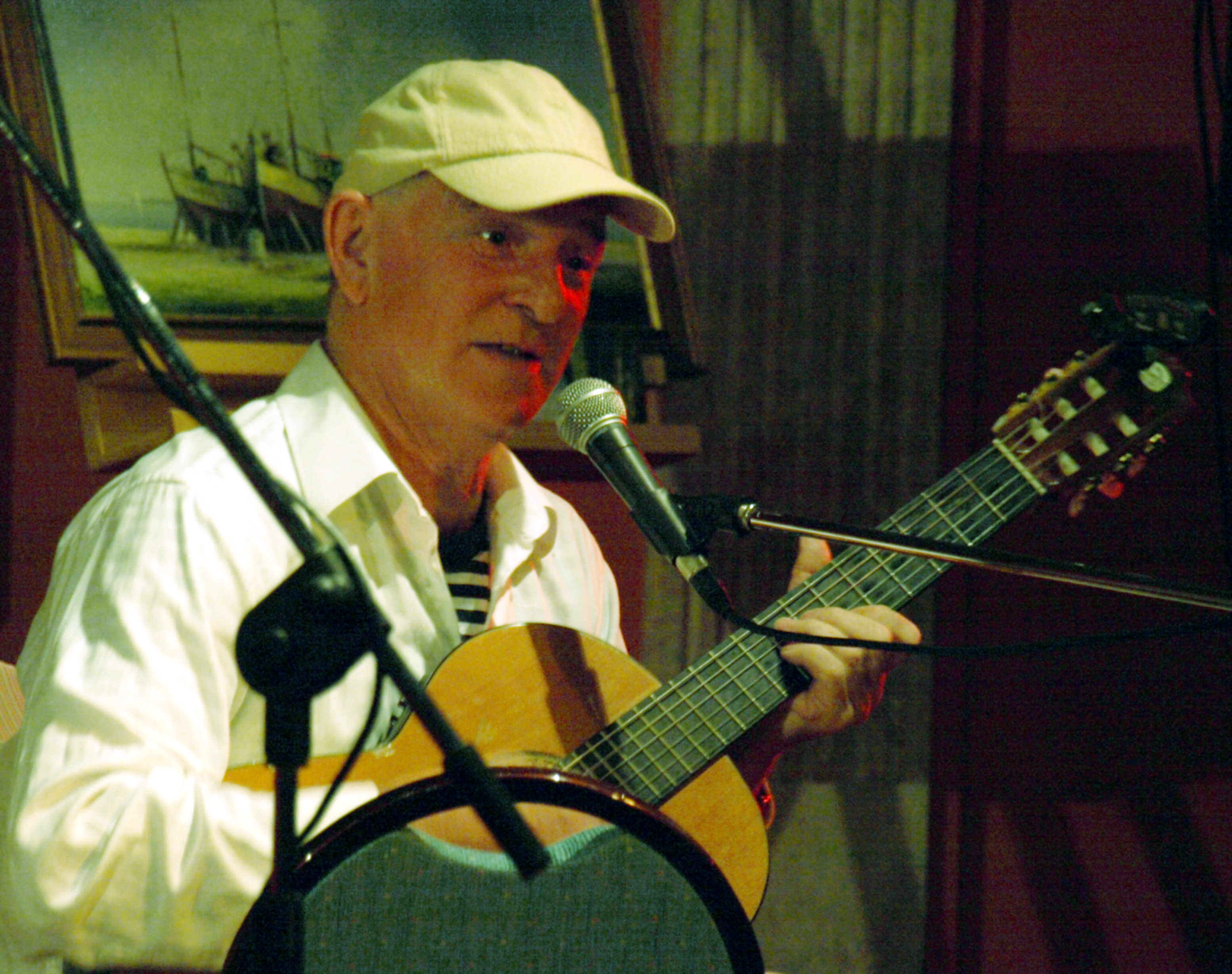 Jerzy Porębski, a Polish shanties author and singer, performing at Hotel Nadmorski, Gdynia, Poland